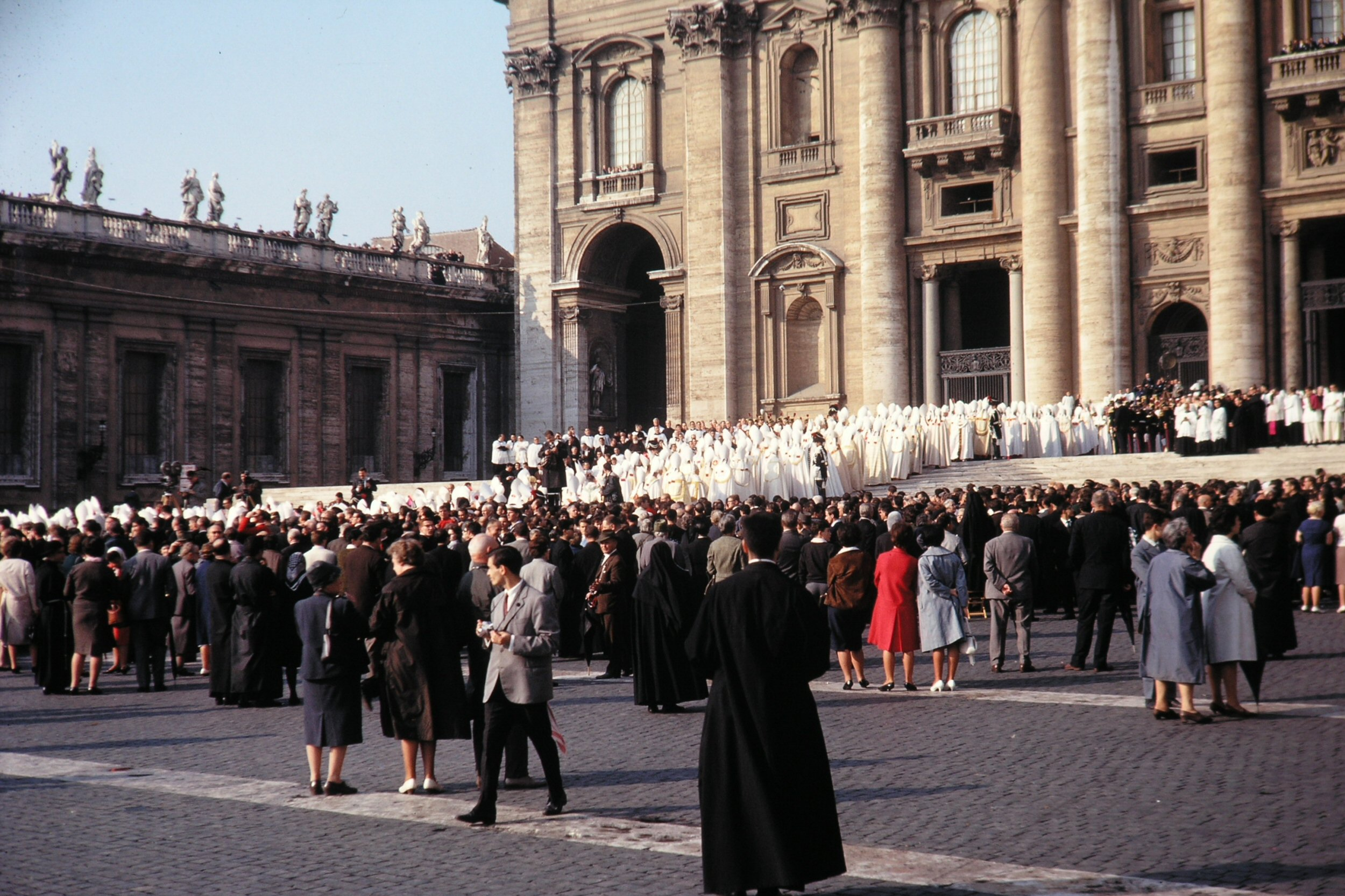 Grand procession of the Council Fathers at St. Peter's Basilica.